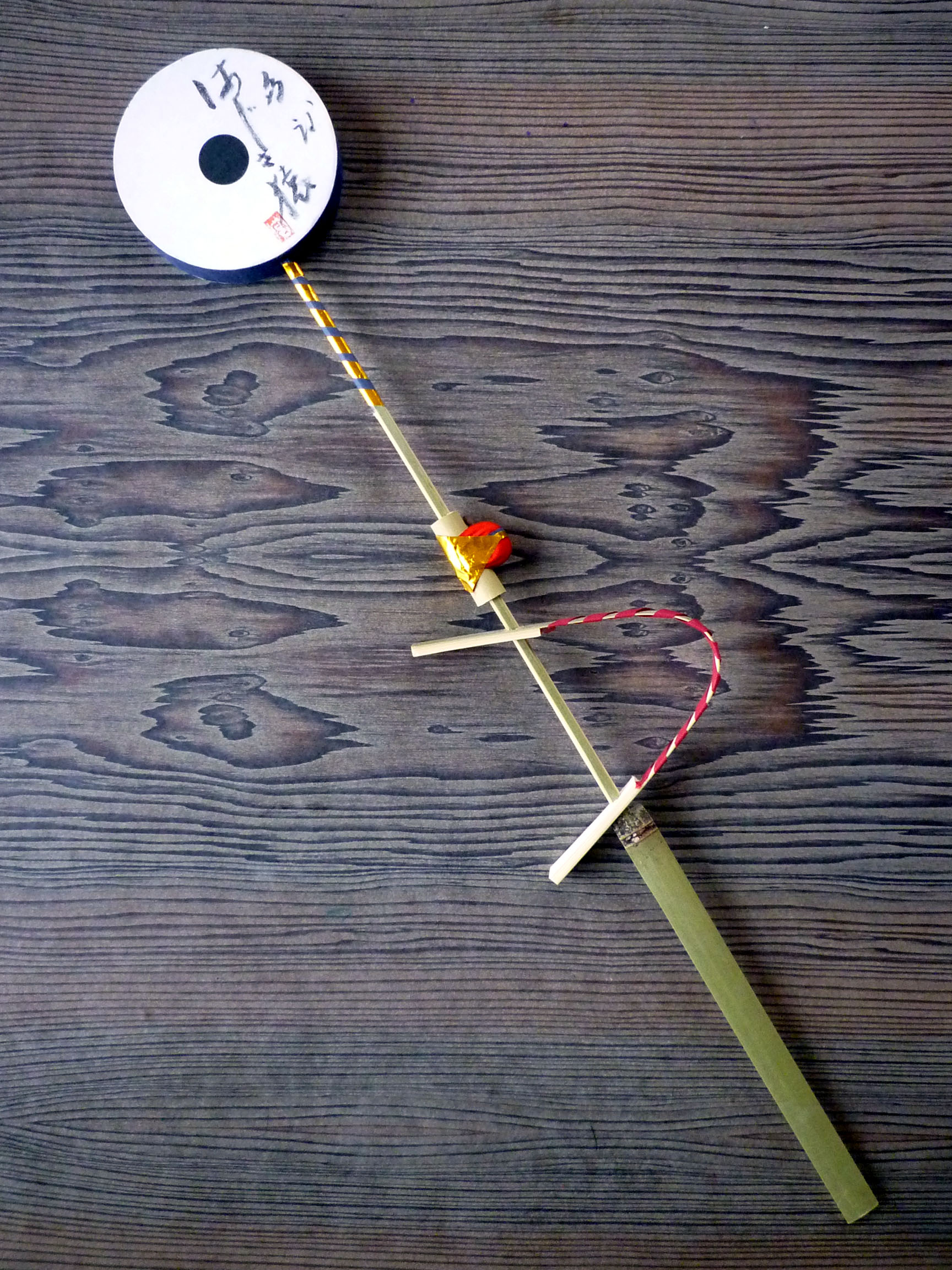 Tado no Hajikisaru